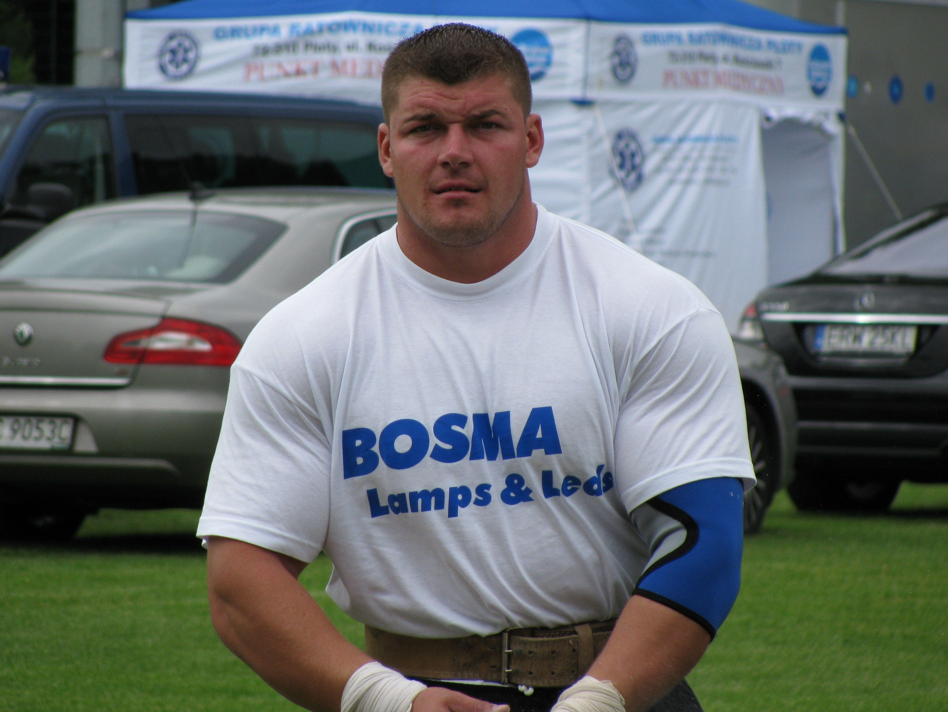 Janusz Kulaga - a strength athlete from Poland.